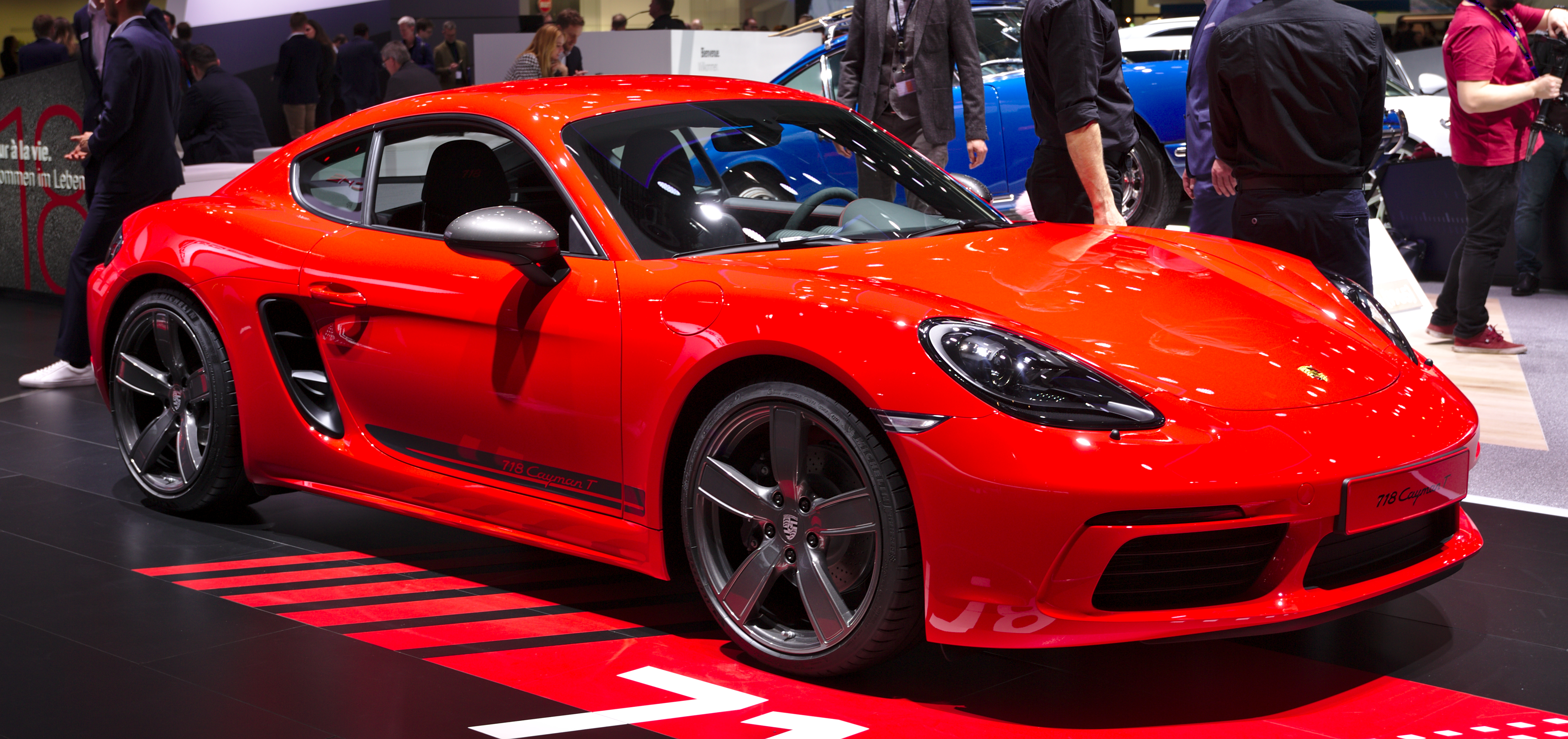 Porsche 718 Cayman T at Geneva Motor Show 2019